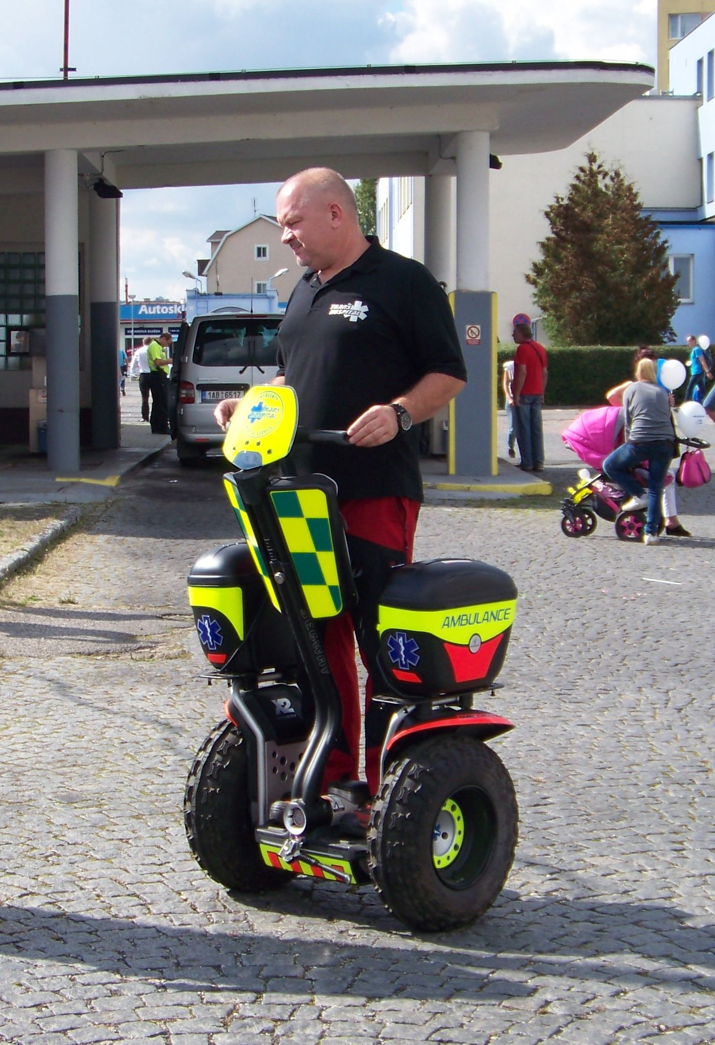 Králův Dvůr, Beroun District, Central Bohemian Region, Czech Republic. Pod Hájem 97, PROBO BUS ground. Open doors day. Rescue Segway.